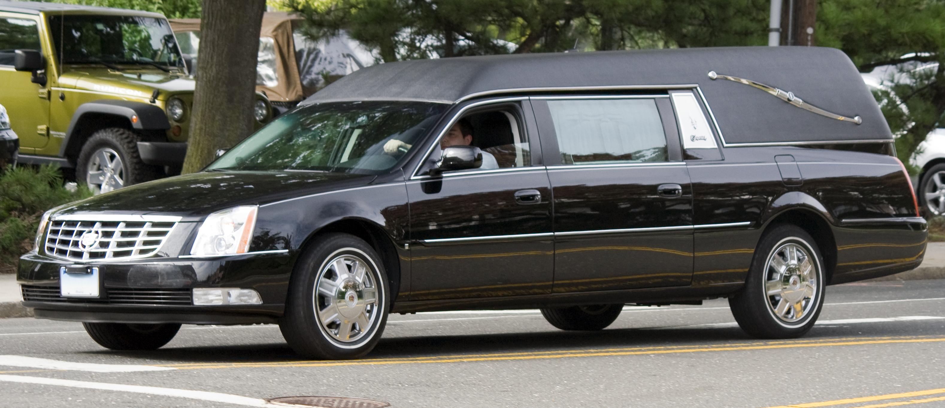 Cadillac DTS-based hearse